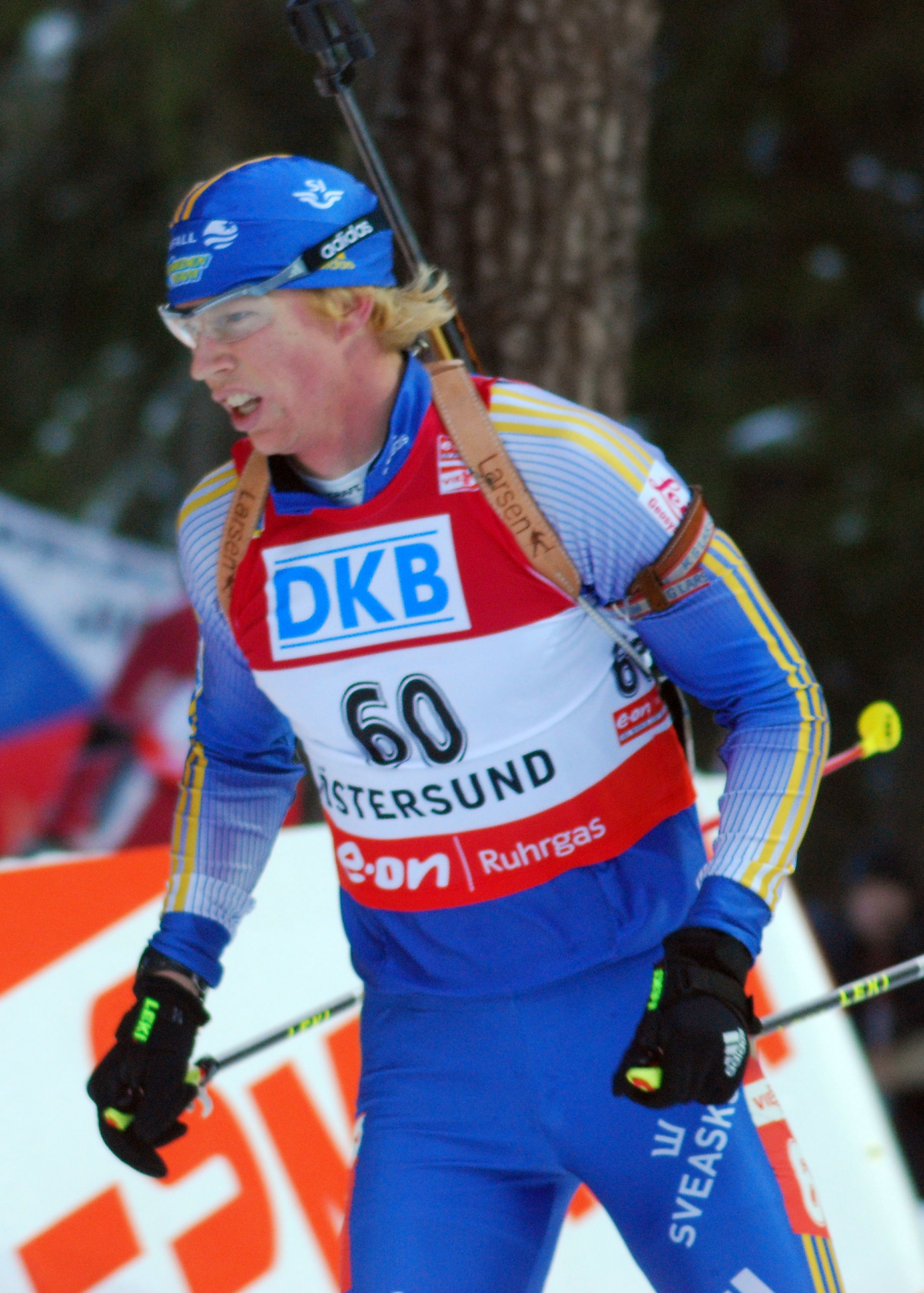 Swedish biathlete Mattias Nilsson during the World Championships in Östersund 2008.